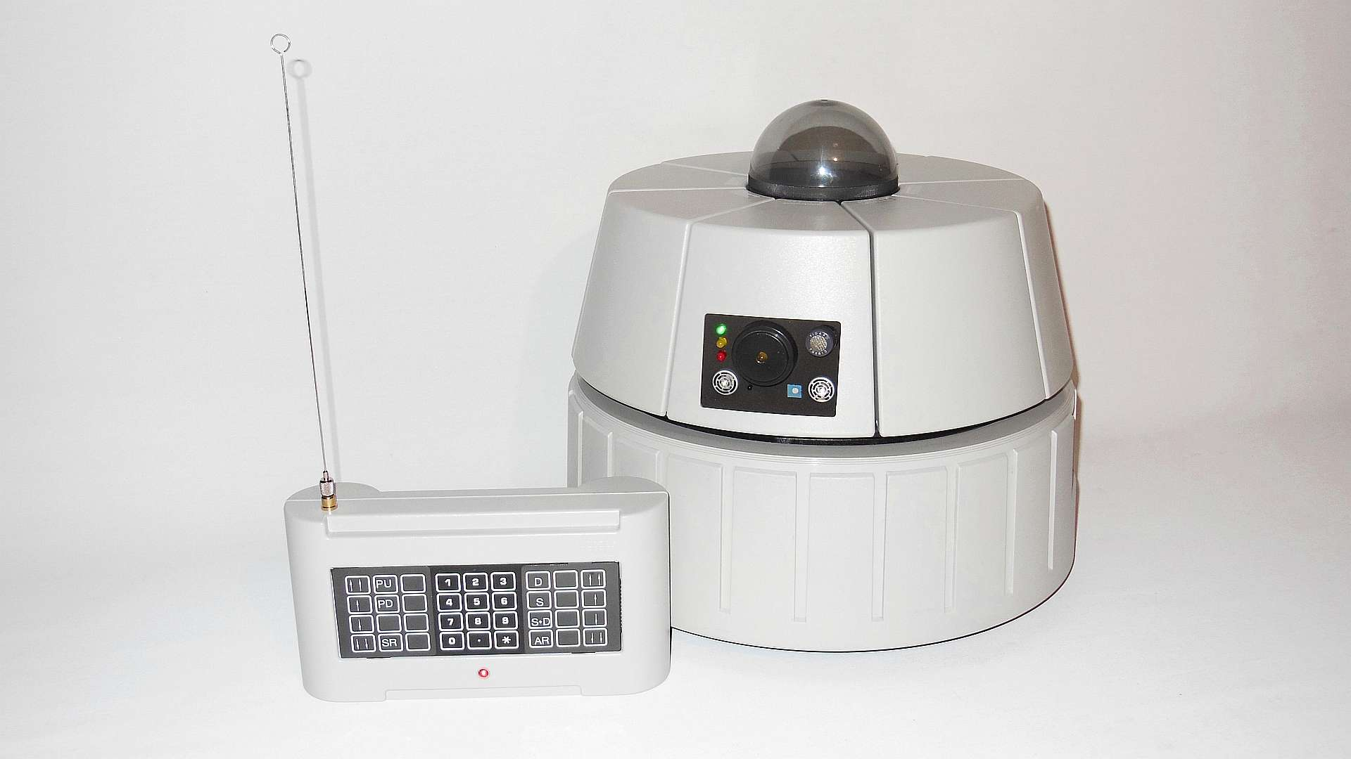 The Service & Security setup of the Modulus robot. From the collection of Jehudah Design.